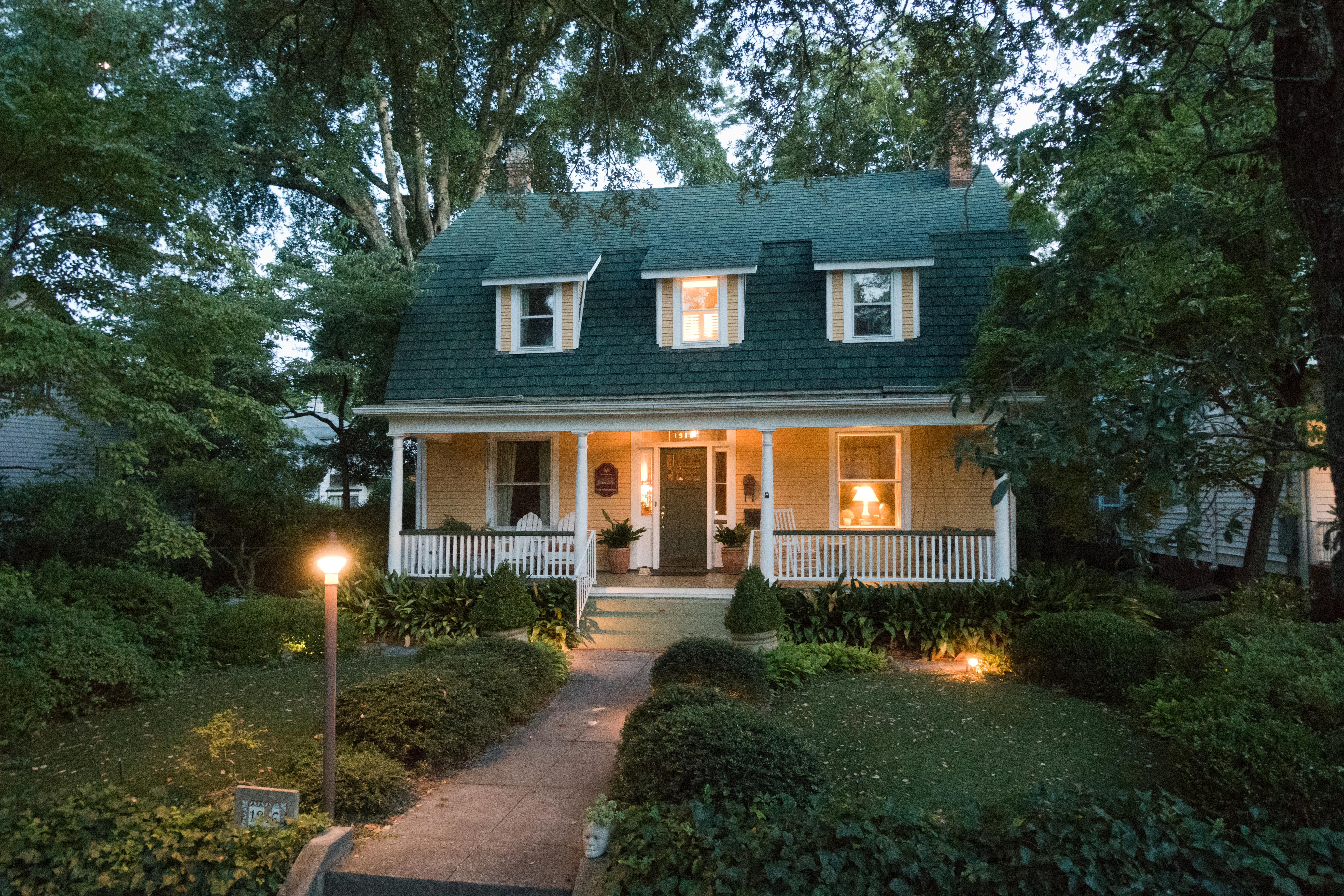 John Hazelhurst House, Dutch Colonial style residence built in 1910, 1916 Princess Street was the scene of the Party House in "Blue Velvet" the 1986 David Lynch film starring Kyle MacLachlan which took place in the fictional town of "Lumberton," in reality Wilmington, NC. Also used in the film "Dream a Little Dream". Carolina Heights Historic District